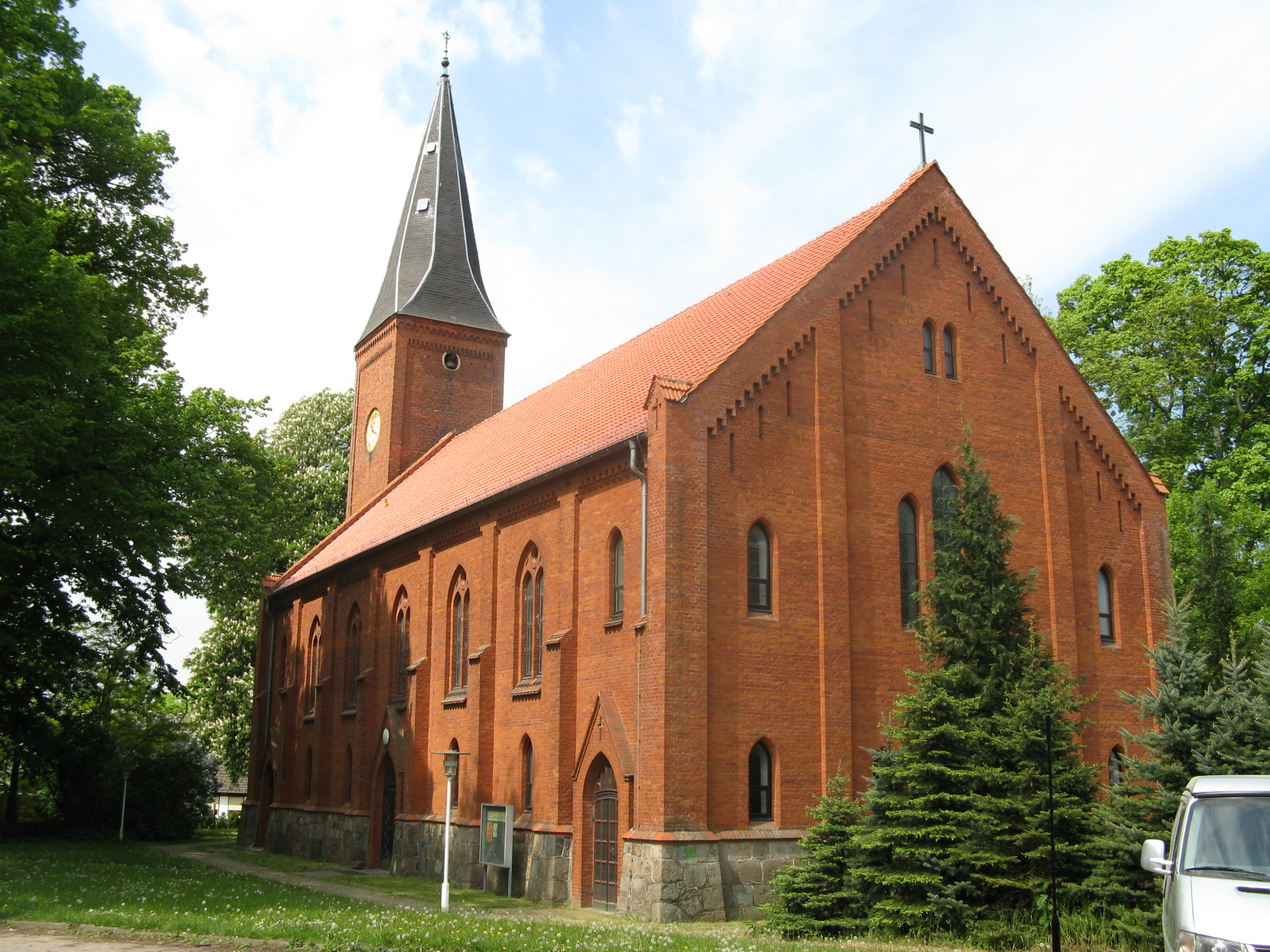 Church in Pritzier, Mecklenburg-Vorpommern, Germany